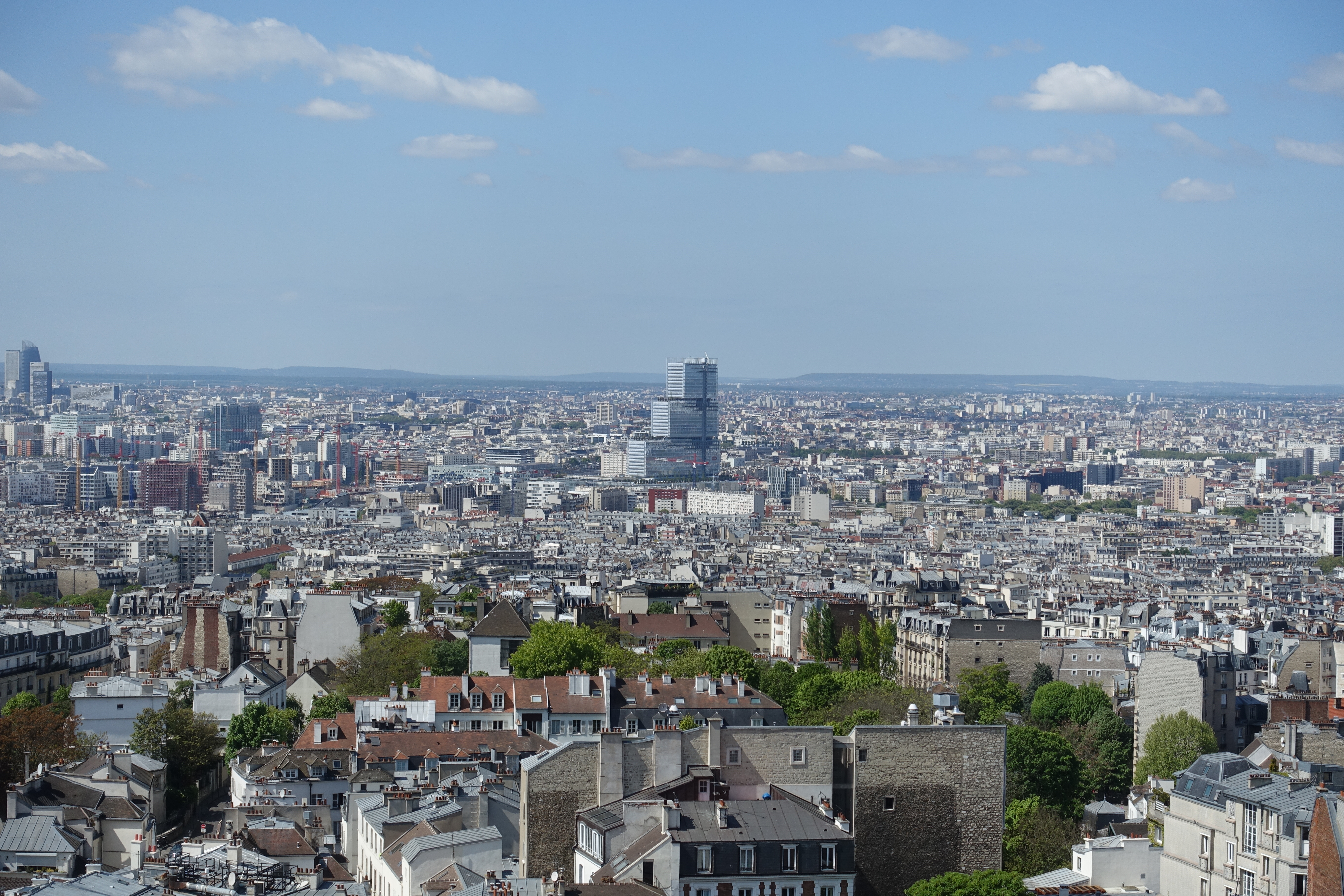 Dome observatory of the Basilique du Sacré Cœur de Montmartre, Paris, France.